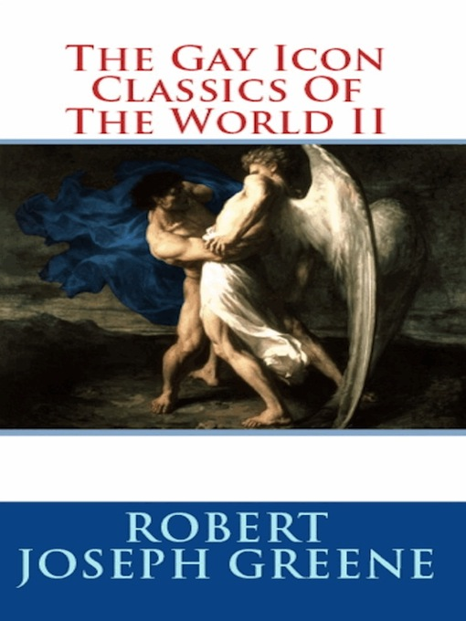 A continuation of the collection of gay short fiction fables from around the world. The creation of these stories were based upon some cultural awareness of gay men in history and in some cultures where gay life is taboo. Table Of Contents: 1. The Dalit Boy (India) 2. The Laughing Brothers (Korea) 3. The Red Rheum (China) 4. The Game Of Nard (Persia-Iran) 5. The Kuri Village (Australia) 6. Tukkuruq and Uquitchuq: The Story Of Night And Day (Canada)* 7. The Blue Door (Russia) 8. The Pink Tie Dance (Argentina)